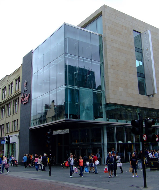 The St Enoch Center enterance viewed from Argyle Street